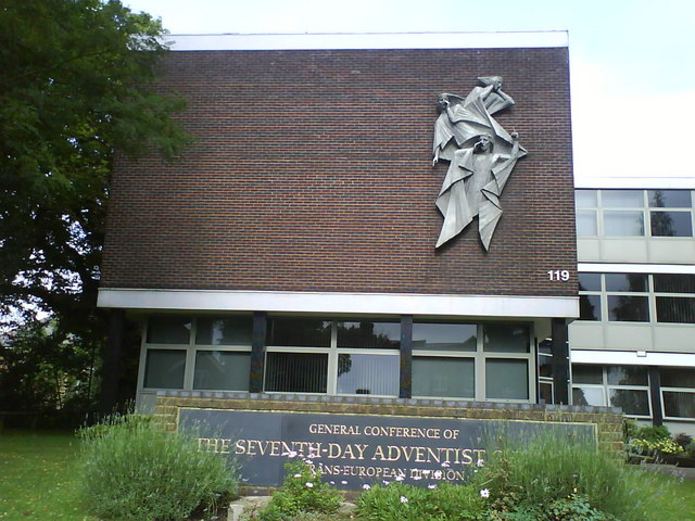 Seventh Day Adventists Building St Peters Street St Albans